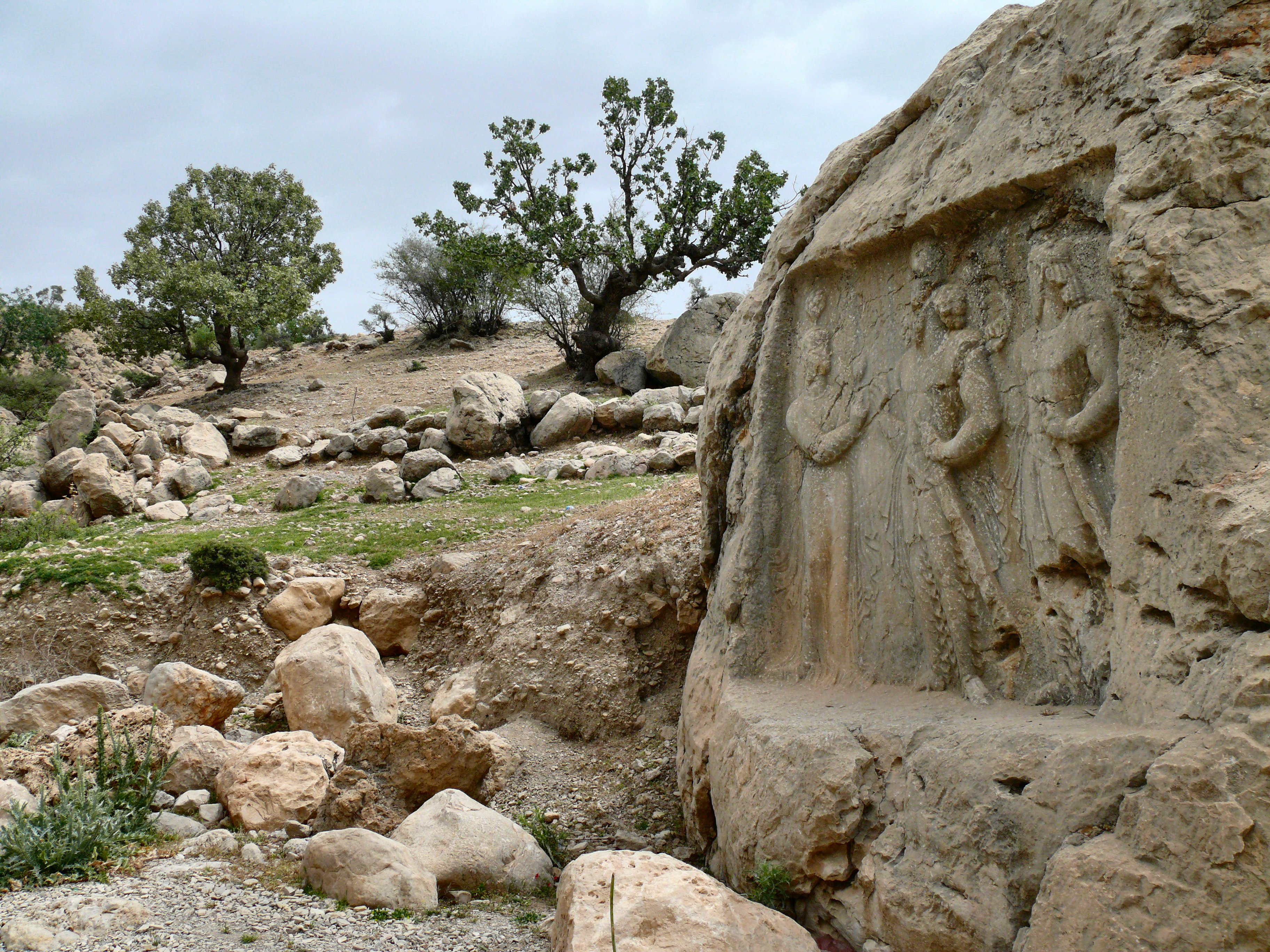 Sasanian rock relief at Sarab-e Qandil,attributed to king Bahram II. The scene shows the queen offering king bahram II a lotus flower. Behing the royal couple, stands Bahram's son, futur king Bahram II holding the ring of power. Taken at sarab-e Qandil, vicinity of Kazerun, Fars province, Iran, May 2009